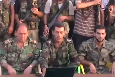 Formation of the Conquest Brigade, part of the Free Syrian Army, in the town of Tell Rifaat, north of Aleppo in northwestern Syria during the Syrian civil war.